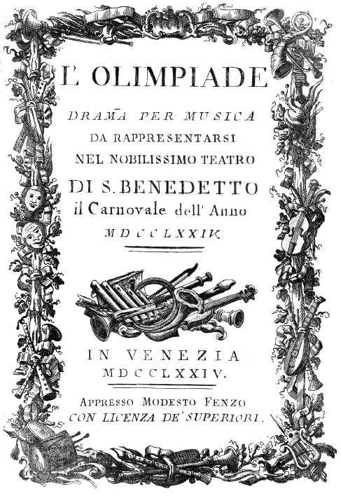 Pasquale Anfossi - Olimpiade - titlepage of the libretto - Venice 1774